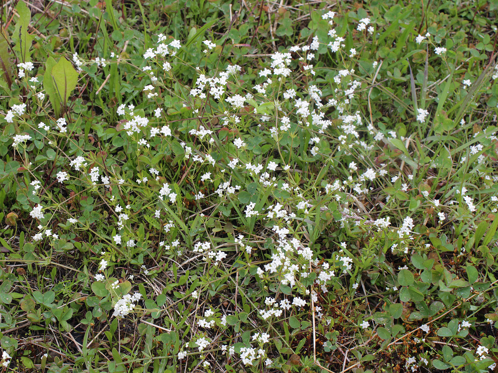 Rubiaceae, Galium uliginosum